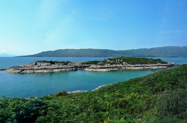 NG7529 : Black Islands in Erbusaig Bay